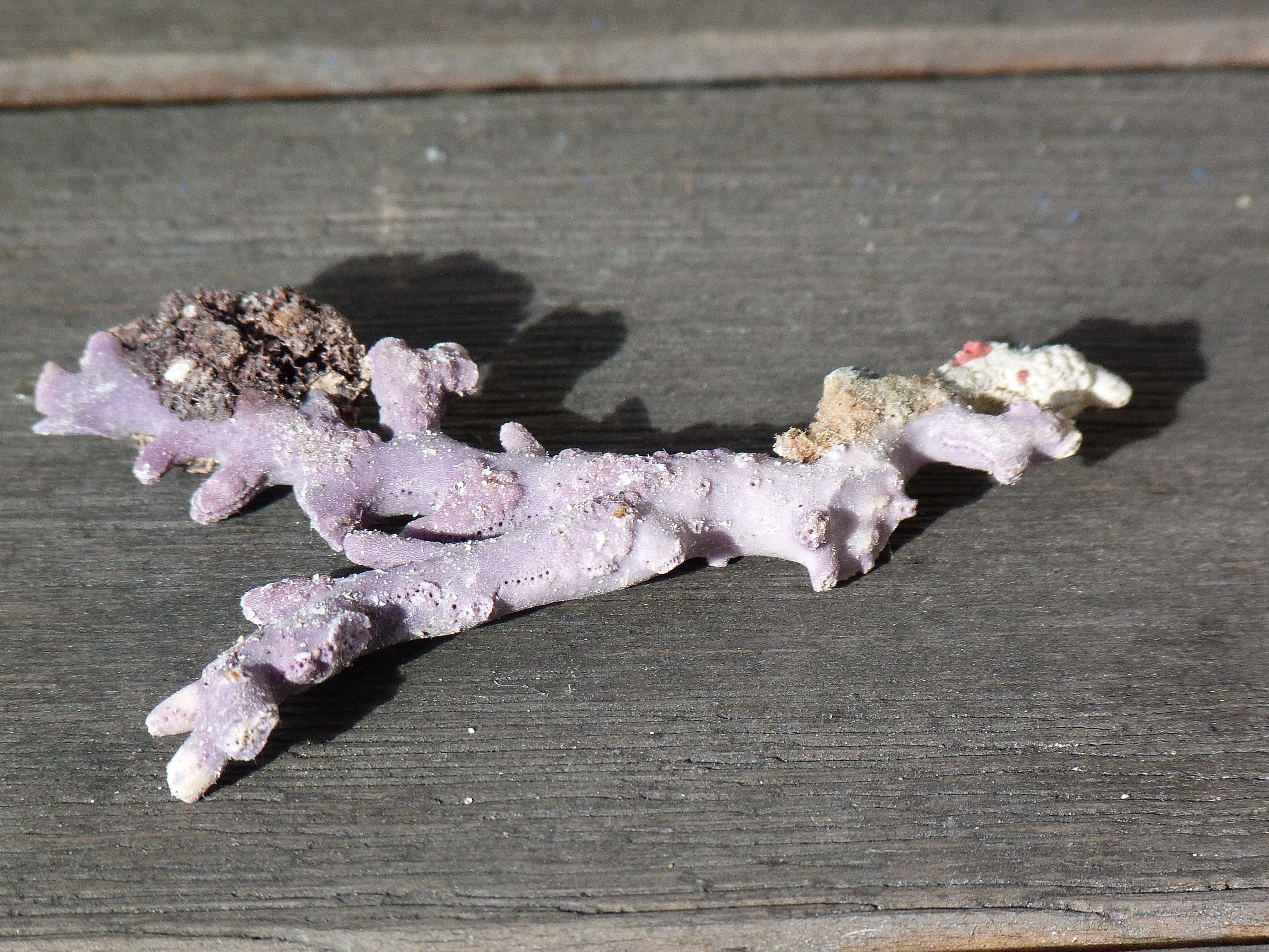 Seashell. Indonesia, 2012-2013.